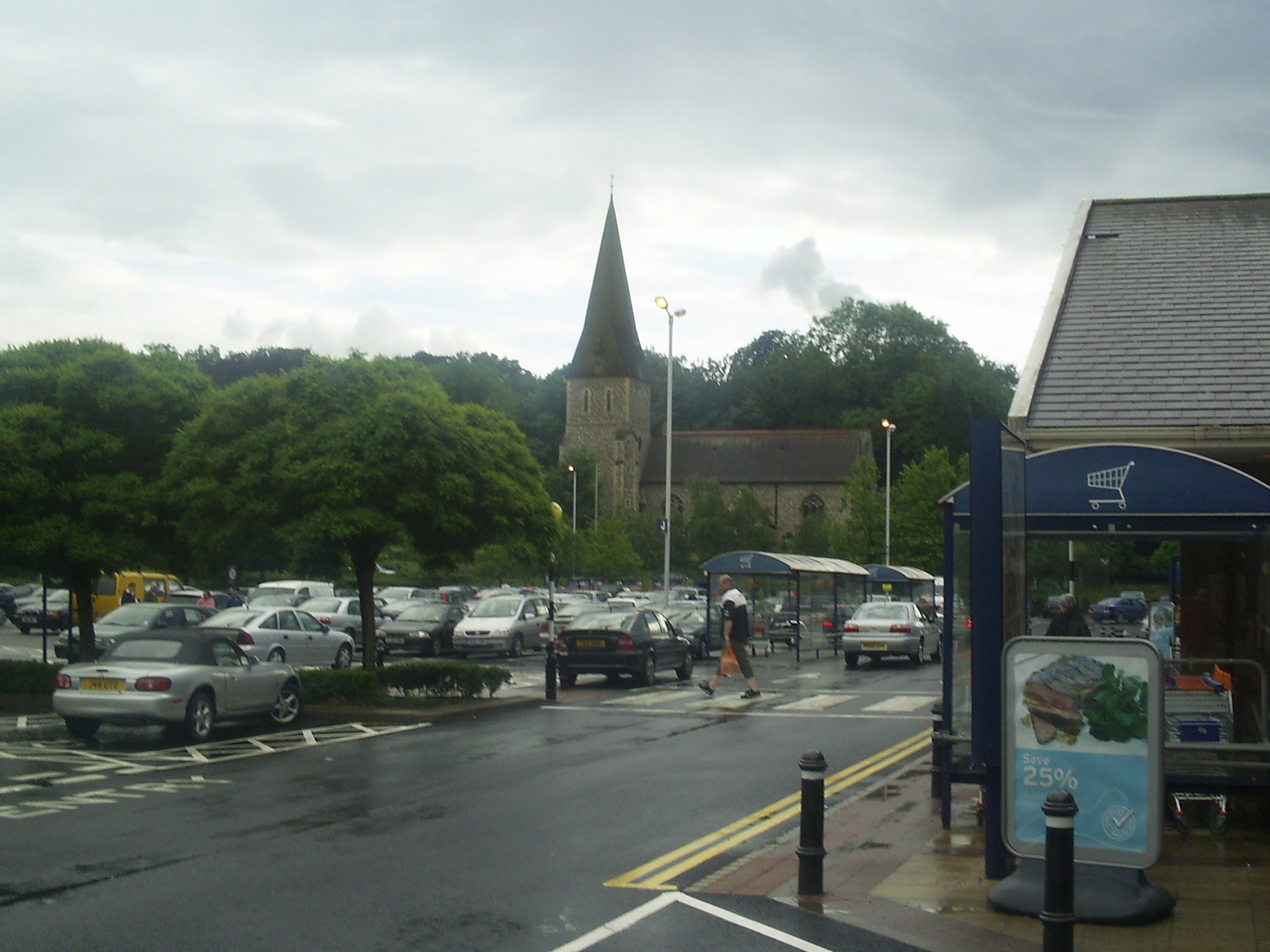 Image of St Mary's Church Apsley , Hertfordshire. Taken on 16th June 2007. by me. Lumos3| 17:04, 18 June 2007 (UTC) Category:Dacorum Summary Image of St Mary's Church Apsley , Hertfordshire. Taken on 16th June 2007. by me. Lumos3 17:04, 18 June 2007 (UTC)